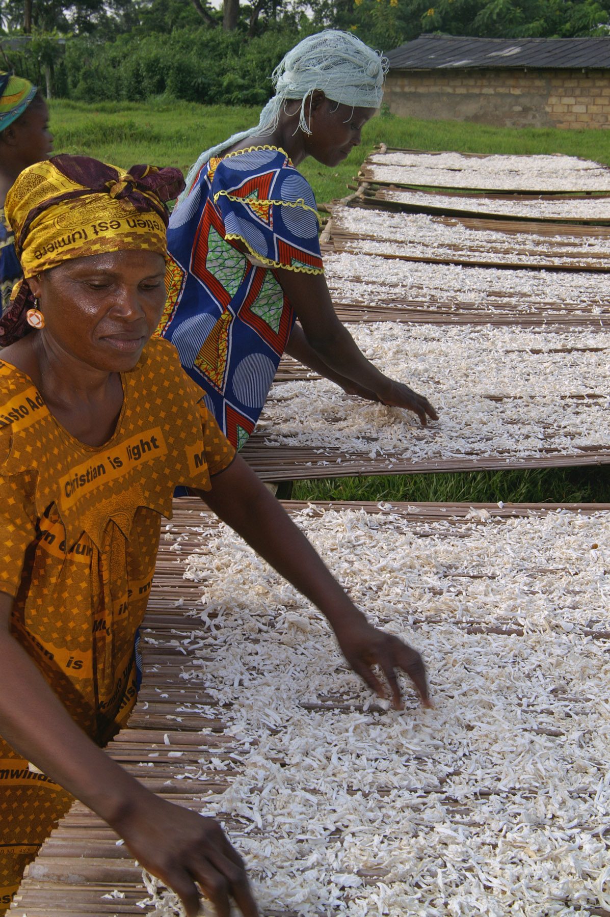 Spreading cassava chips to dry, DRC